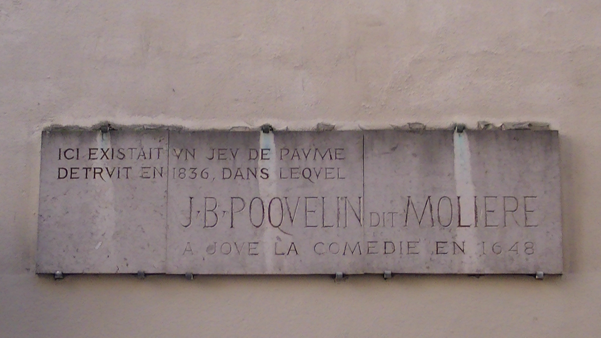 Plaque commemorating the site in Nantes where Molière performed a play in 1648. The building where the play was performed was destroyed in 1836. The plaque is located on the Ecole maternelle publique Molière, on Rue Saint-Léonard, between Rue de l'Hôtel de Ville and Rue de Cheval Blanc.